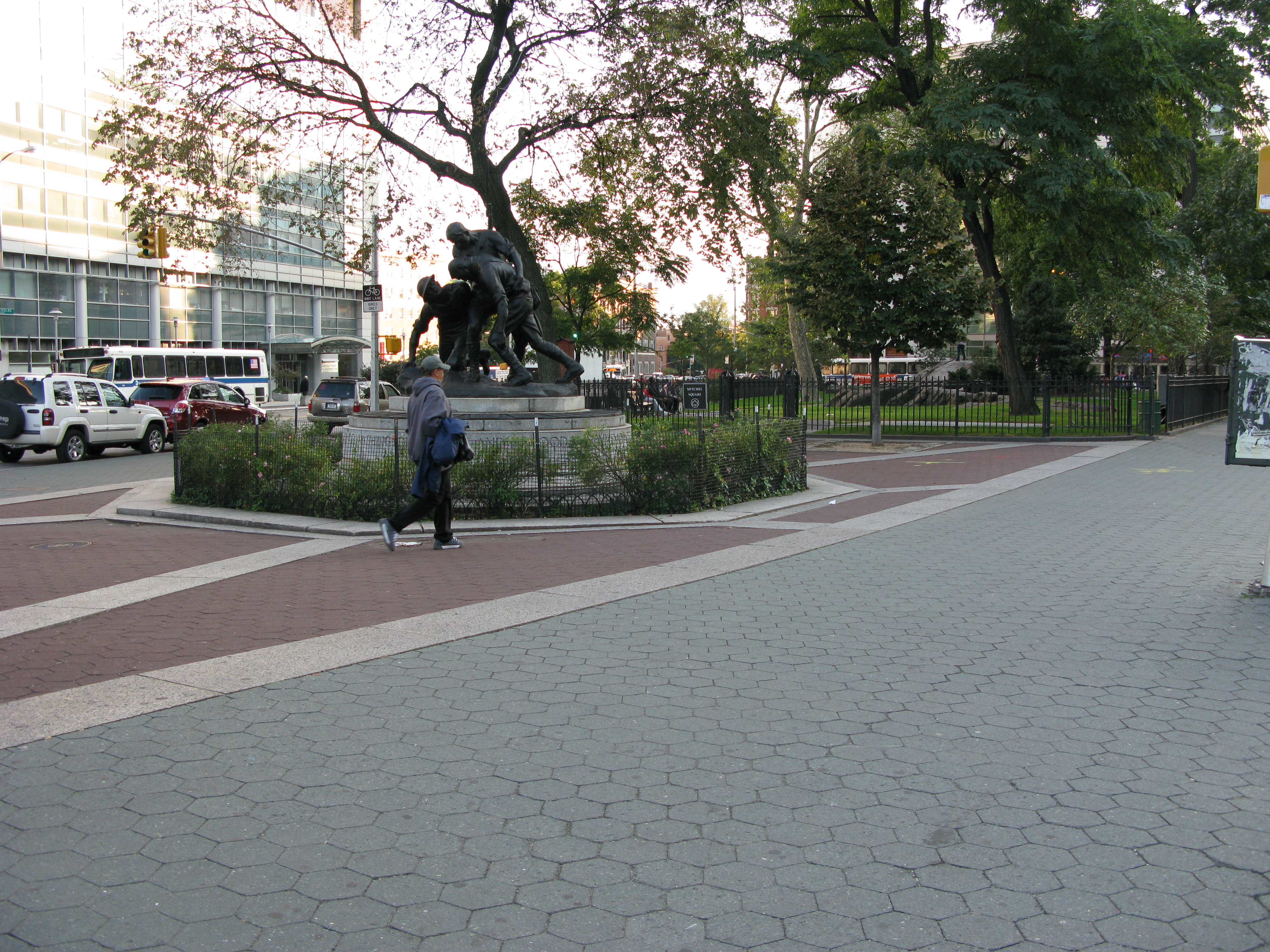 This photo is of Wikis Take Manhattan goal code A14, Mitchell Square Park.